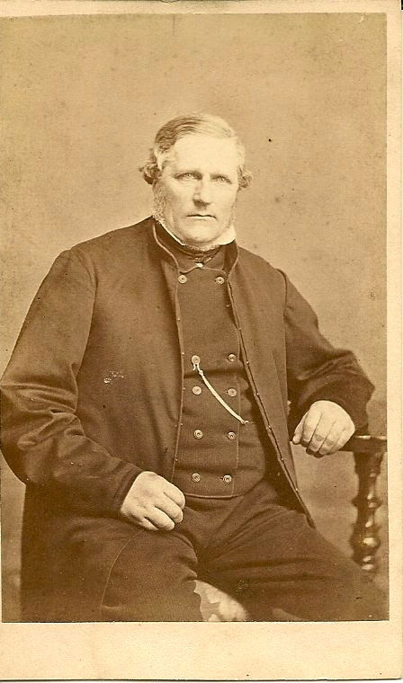 Swedish politician from late nineteenth century